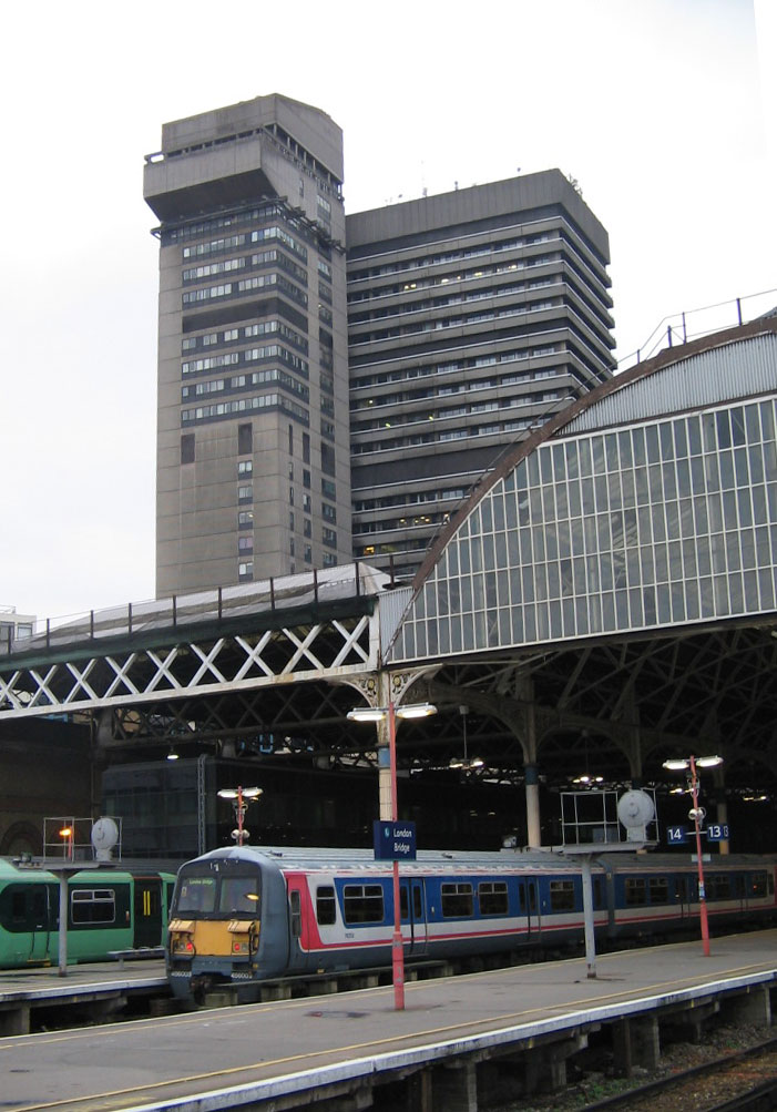 Guys Hospital Tower, in London UK. This is the tallest hospital tower in the world.